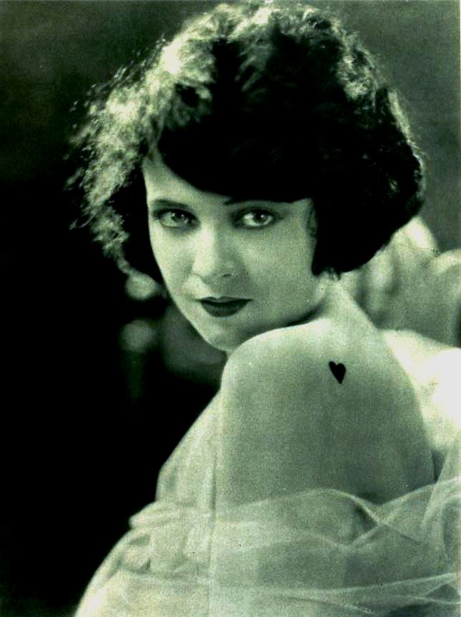 Actress Jacqueline Logan, on page 17 of the February 1922 Photoplay.